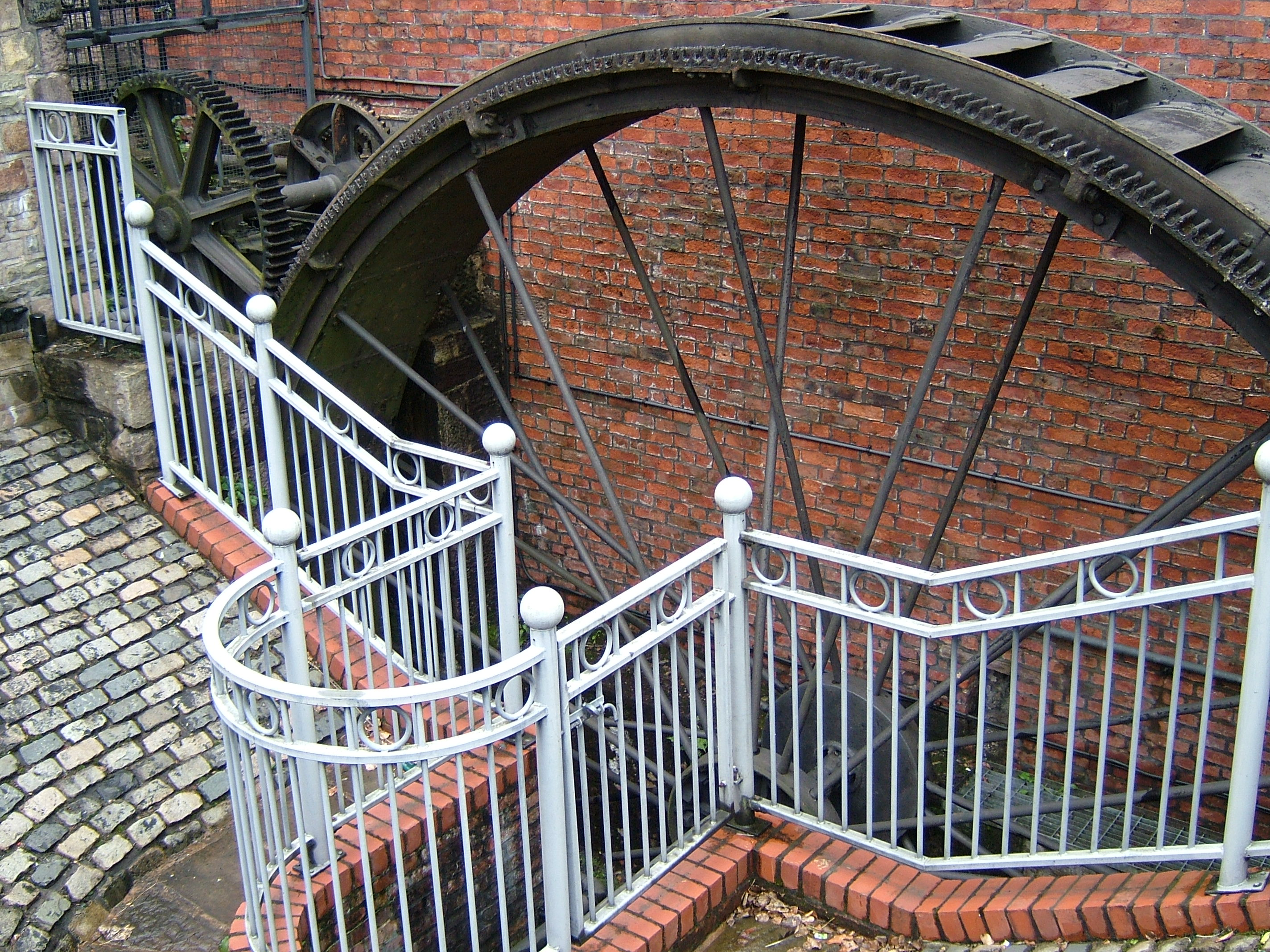 The hoists at the warehouse at Portland Basin, on the Ashton Canal in Ashton-under-Lyne, Tameside, were driven by an external waterwheel, the power was taken off the teethed rim. Bevelled gears, and a shaft took the power into the building.